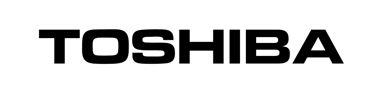 Past Toshiba logo used from 1969 to 1984